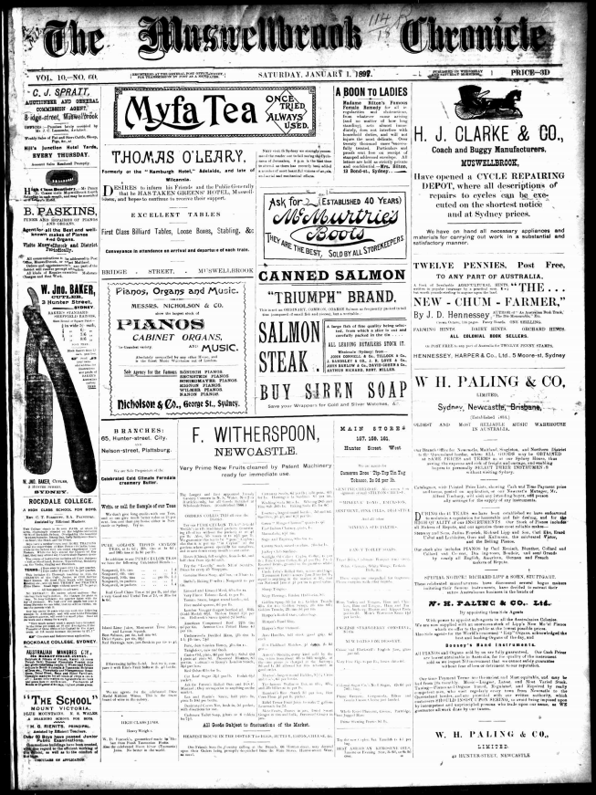 Front cover of the Muswellbrook Chronicle on 1 January 1898